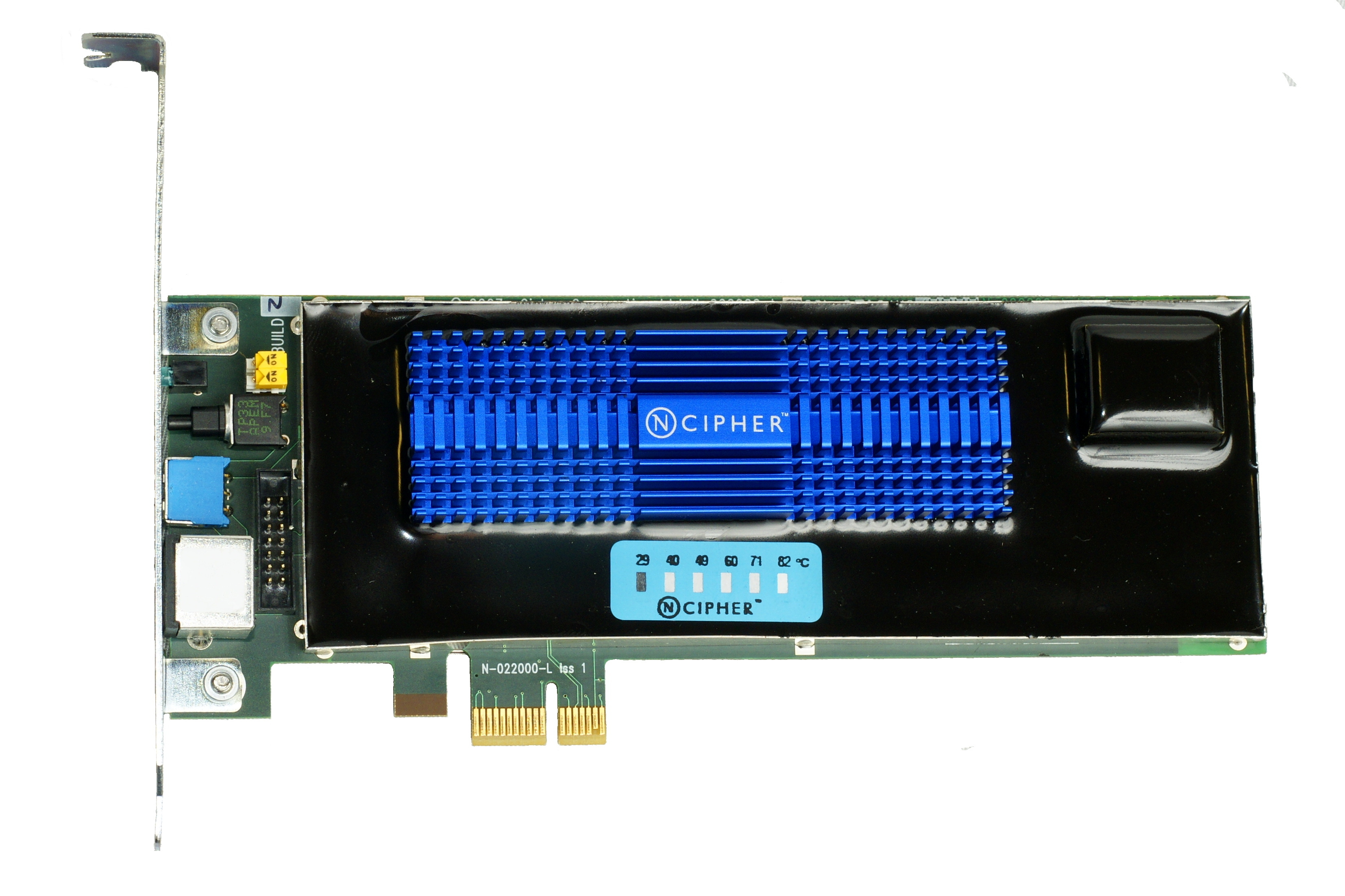 A nCipher nShield F3 hardware security module (HSM)